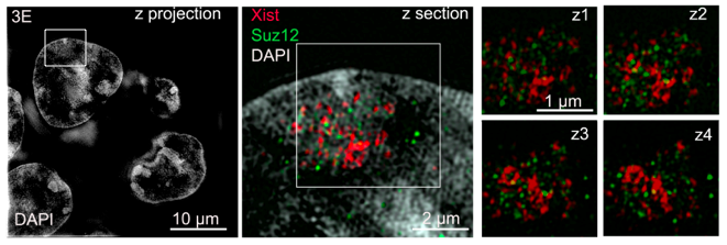 Xist and PRC2 components show spatial separation by super-resolution microscopy